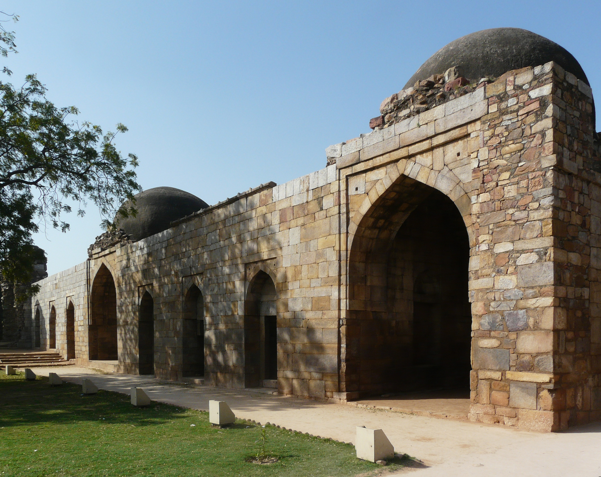 Alauddin's Madrasa, Qutb complex, in the Morning